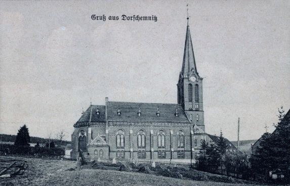 Church Dorfchemnitz 1907